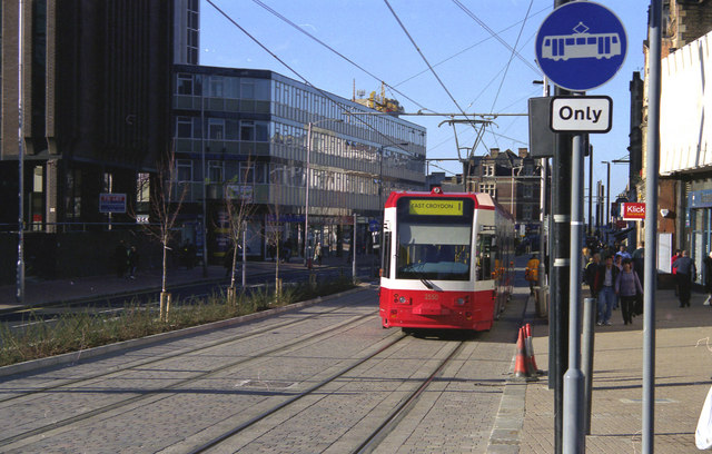 Tram on trial in George Street (East). Car No 2550. The cars were painted in London Transport red and white livery.